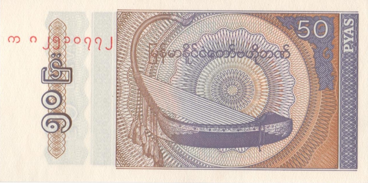 50 pyas